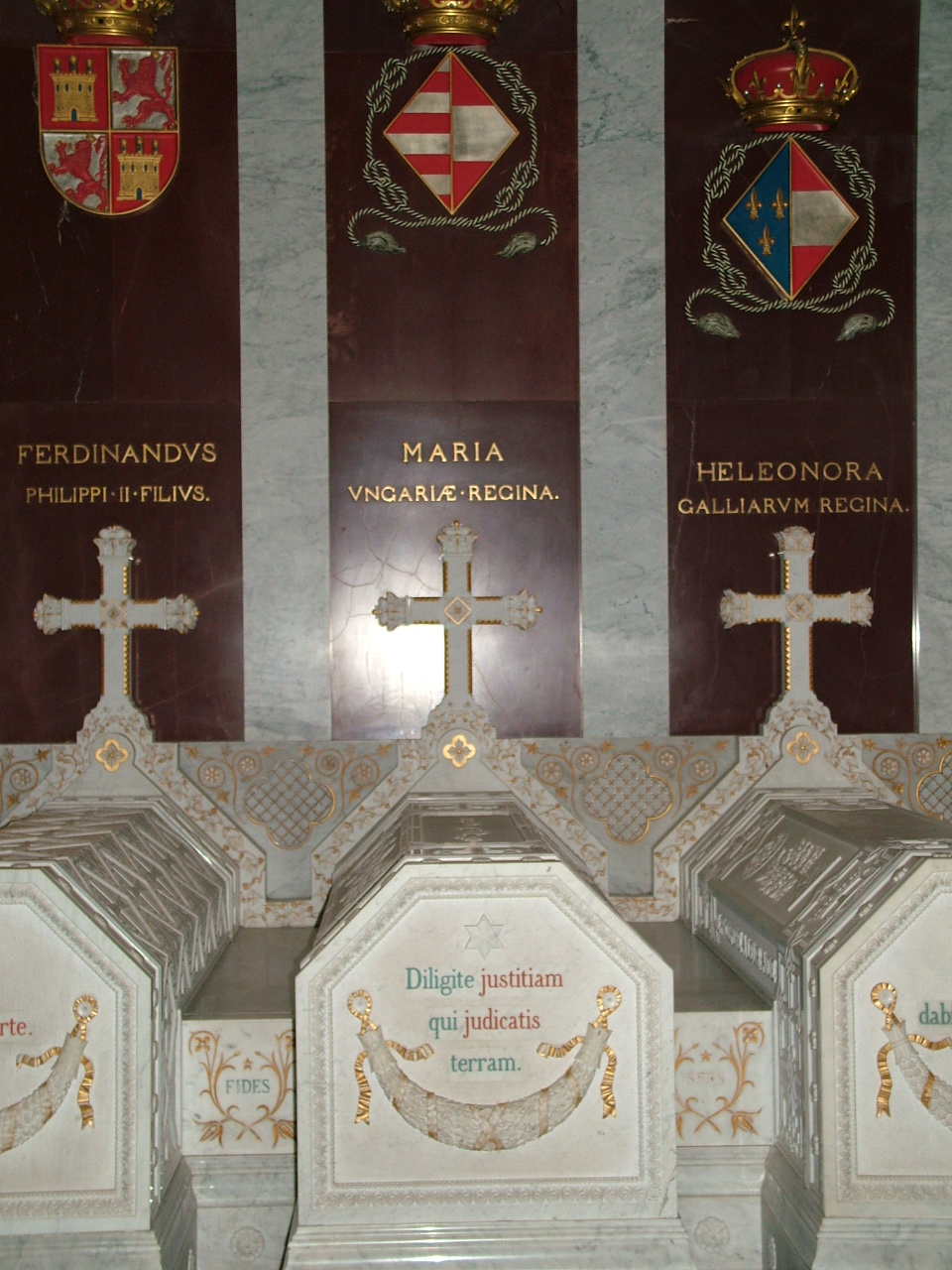 Pantheon of the Infantes - Chapel 9: The tomb of Mary of Hungary